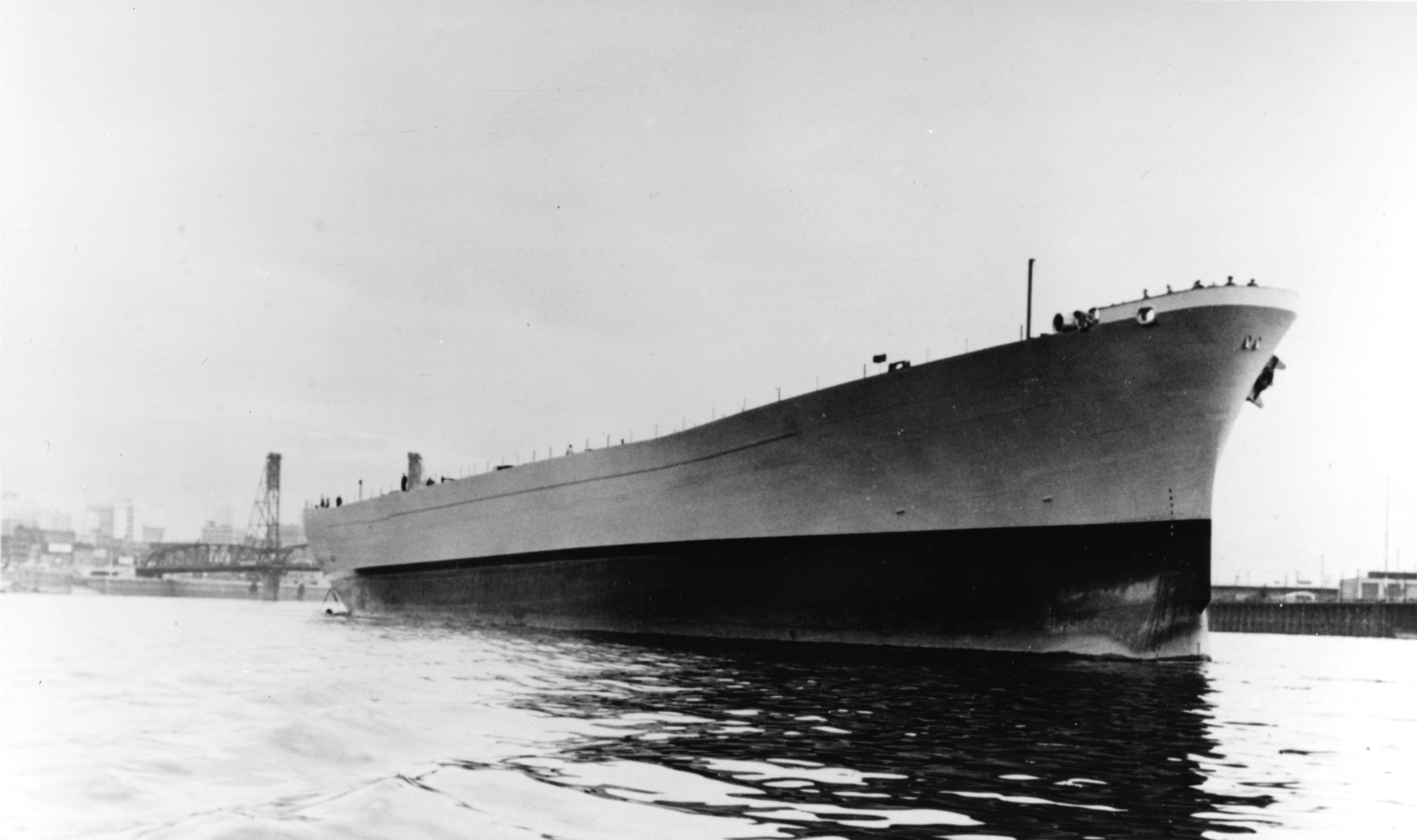 The U.S. Navy escort carrier USS Rabaul (CVE-121) afloat immediately after launching at the Todd Pacific Shipyards, Tacoma, Washington (USA), on 14 July 1945. Rabaul was completed and delivered to the U.S. Navy on 30 August 1946 but never commissioned.